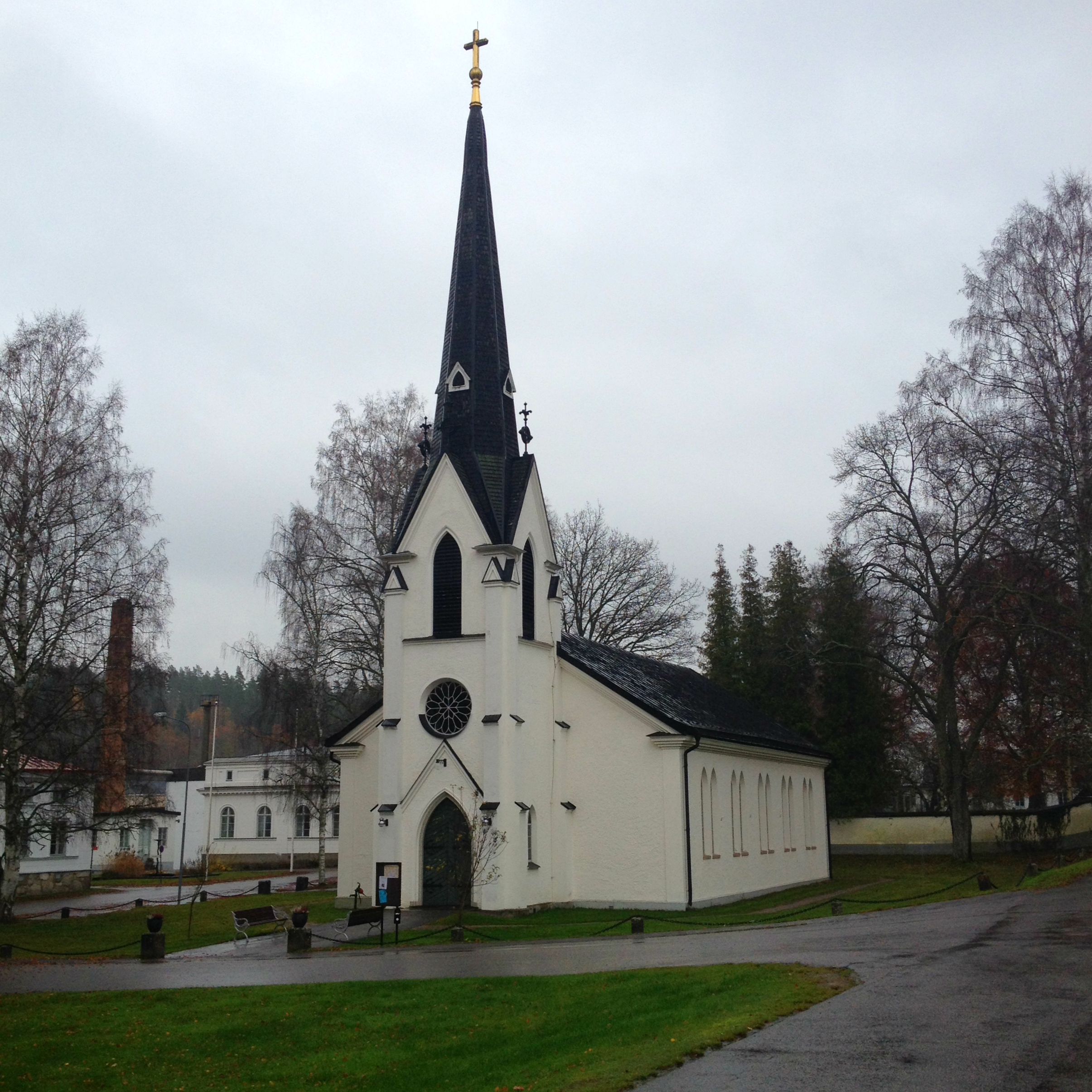 Överums kyrka, Överum in Västervik municipality, Kalmar county, Sweden (BeBR 21400000417568)